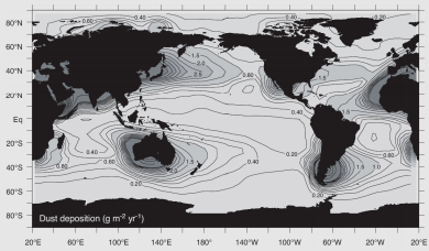 Own work